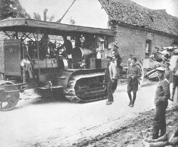 Photograph showing left-front view of a British army Holt artillery tractor, called a caterpillar tractor by the British, on the Western Front, World War I. It appears to be engaged in towing the 8 inch howitzer visible on the right.